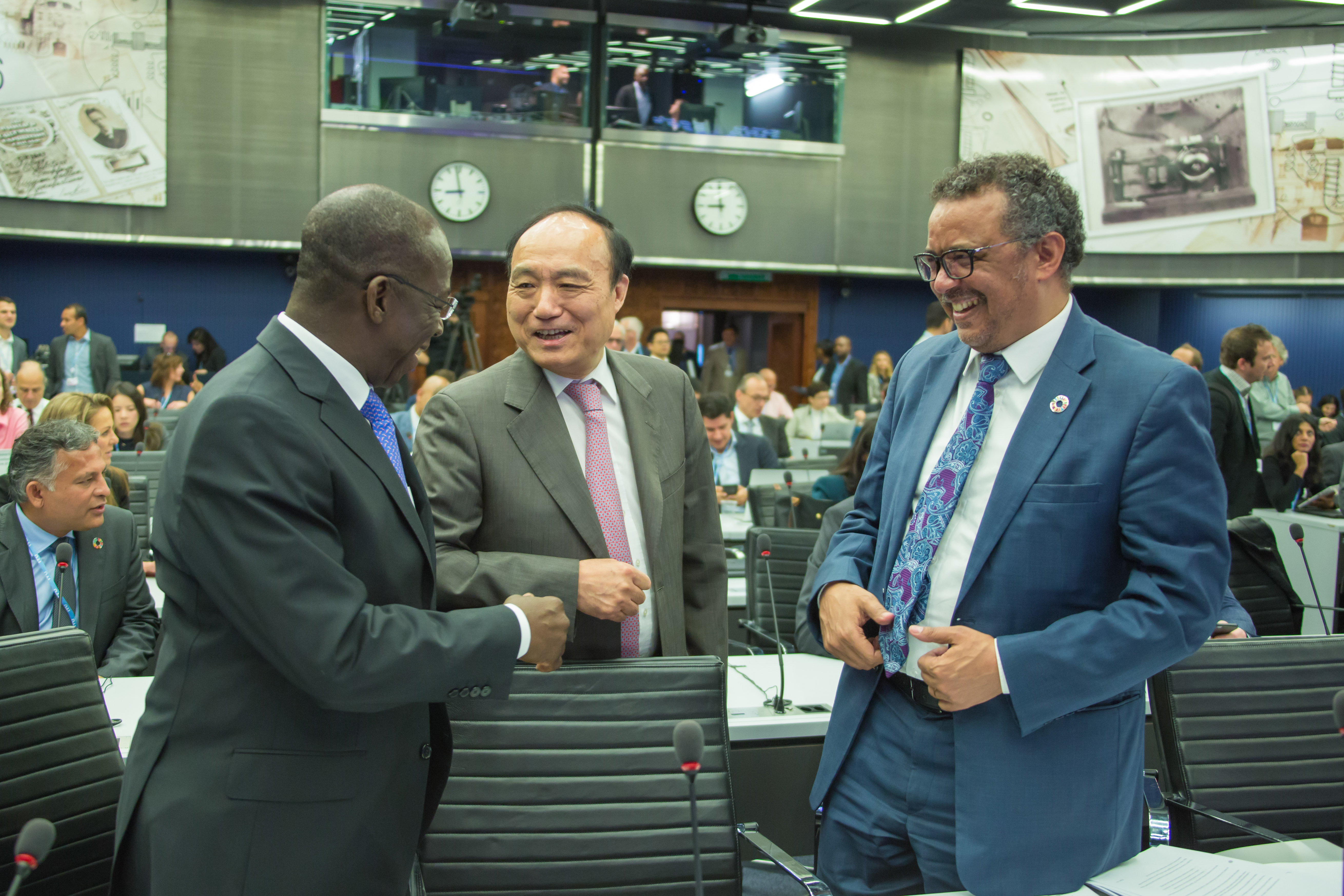 15-17 May 2018, Geneva ©ITU/D.Woldu ITU (International Telecommunication Union)